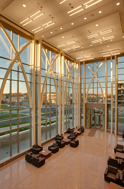 Xavier University's Smith Hall